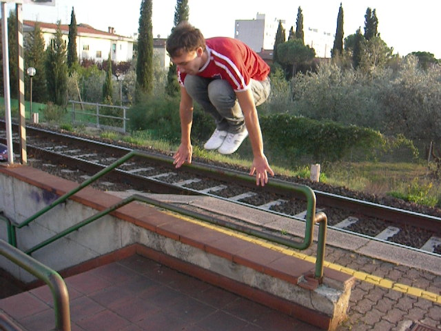 Parkour